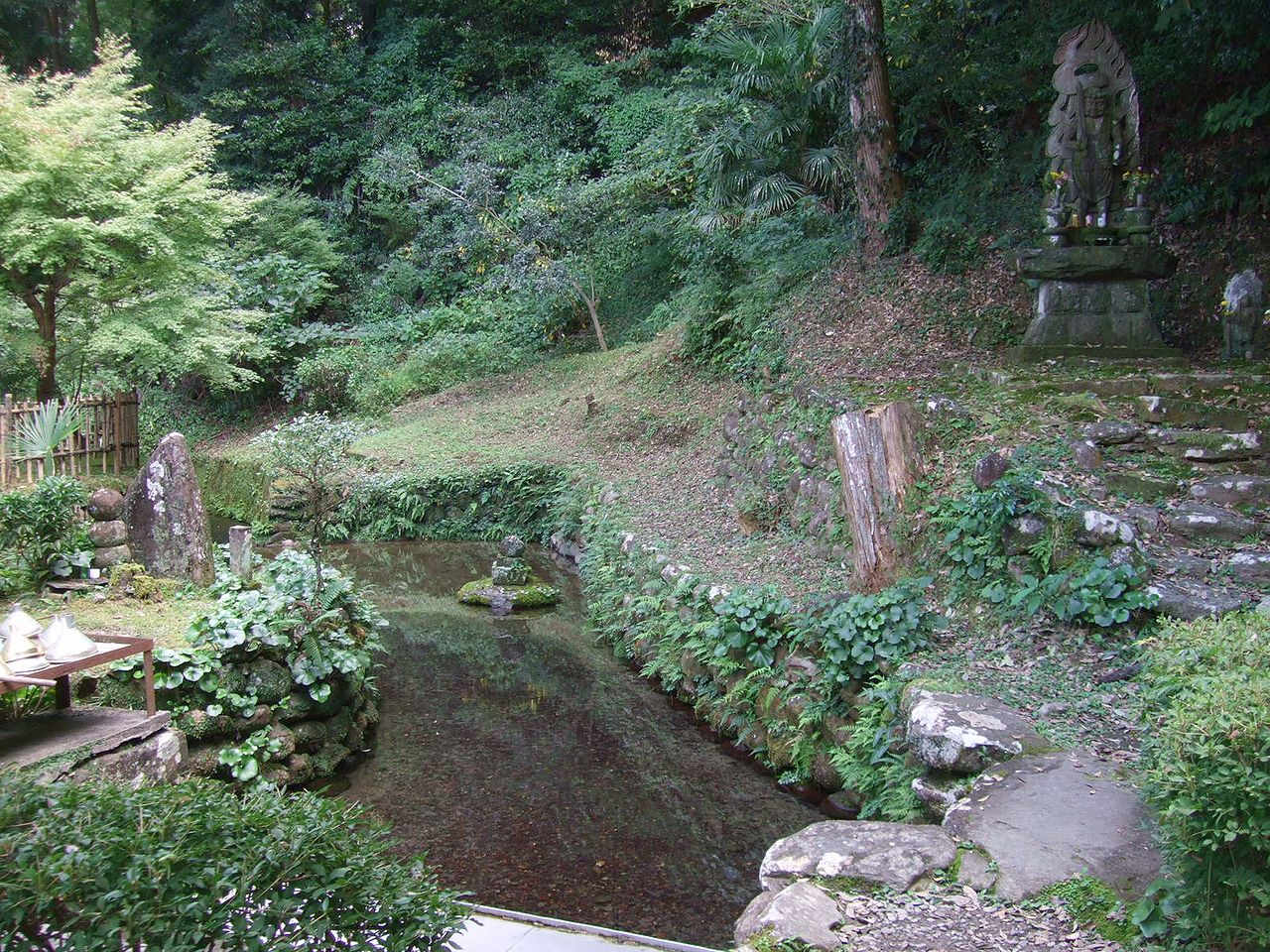 Kiyomizu Spring, Ukiha City, Fukuoka, Japan